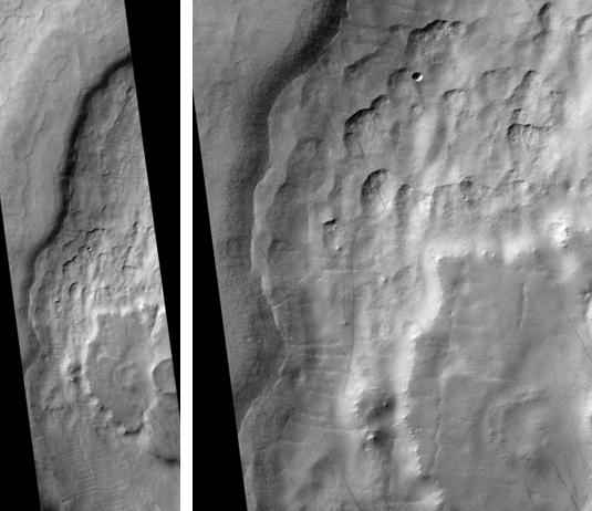 Mad Vallis, as seen by hirise. Location is 59.4 degrees south latitude and 74.4 degrees east longitude. Image was taken by the Mars Reconnaissance Orbiter's HiRISE. The HiRISE camera was built by Ball Aerospace and Technology Corporation and is operated by the University of Arizona. Image courtesy NASA/JPL/University of Arizona.